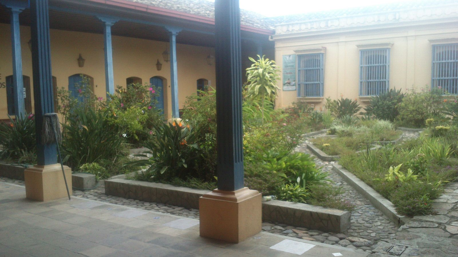 Casa Arias